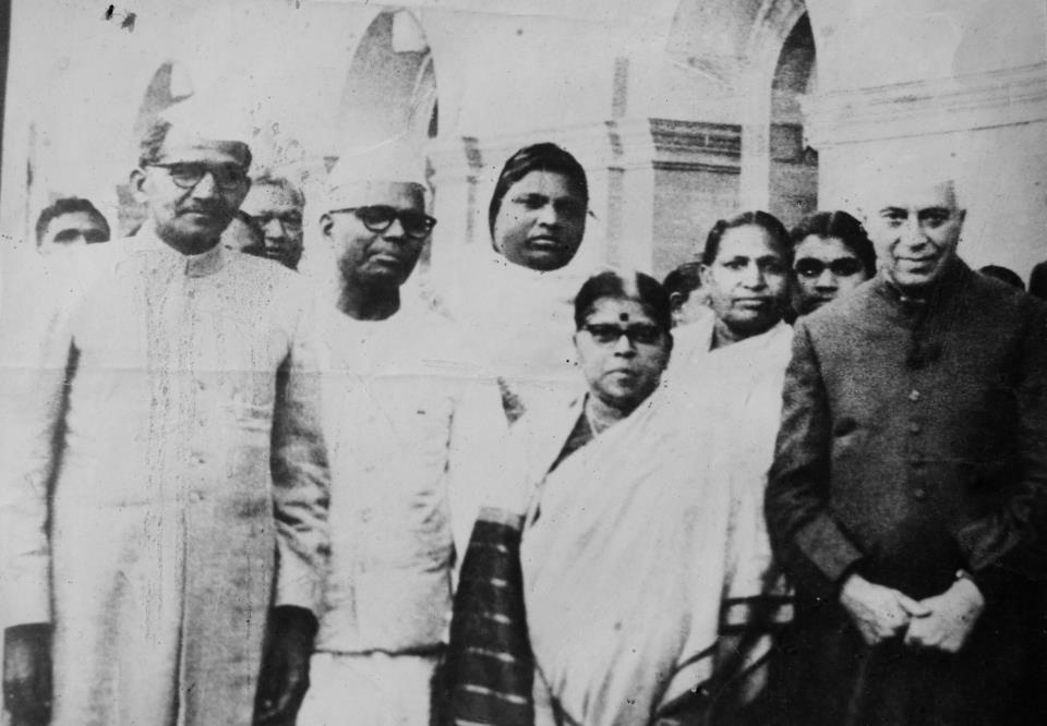 Mool Chand Jain with Jawahar Lal Nehru and Krishna Nayyar